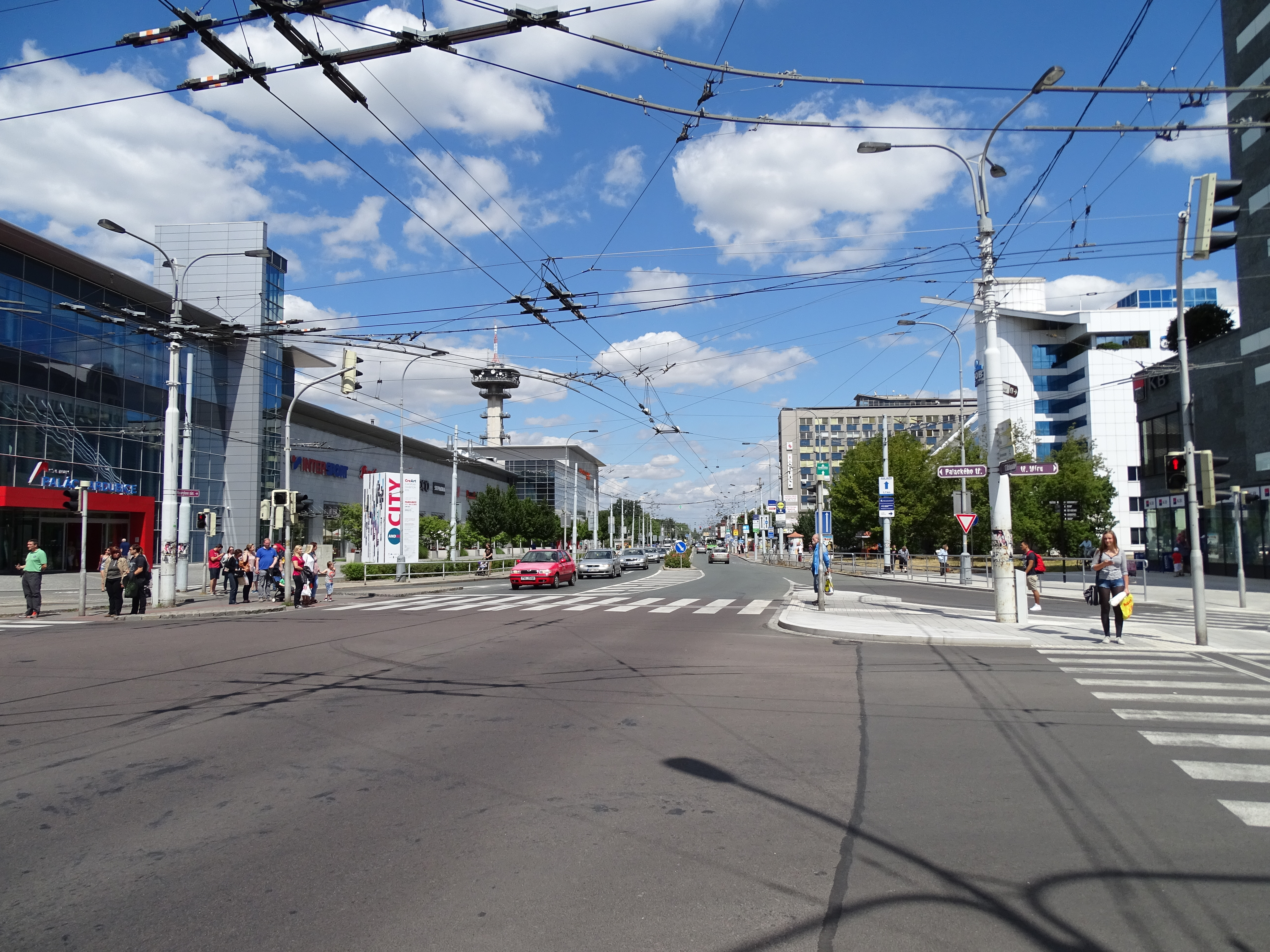 Pardubice I-Zelené Předměstí, Pardubice District, Pardubice Region, Czech Republic. Masarykovo náměstí.